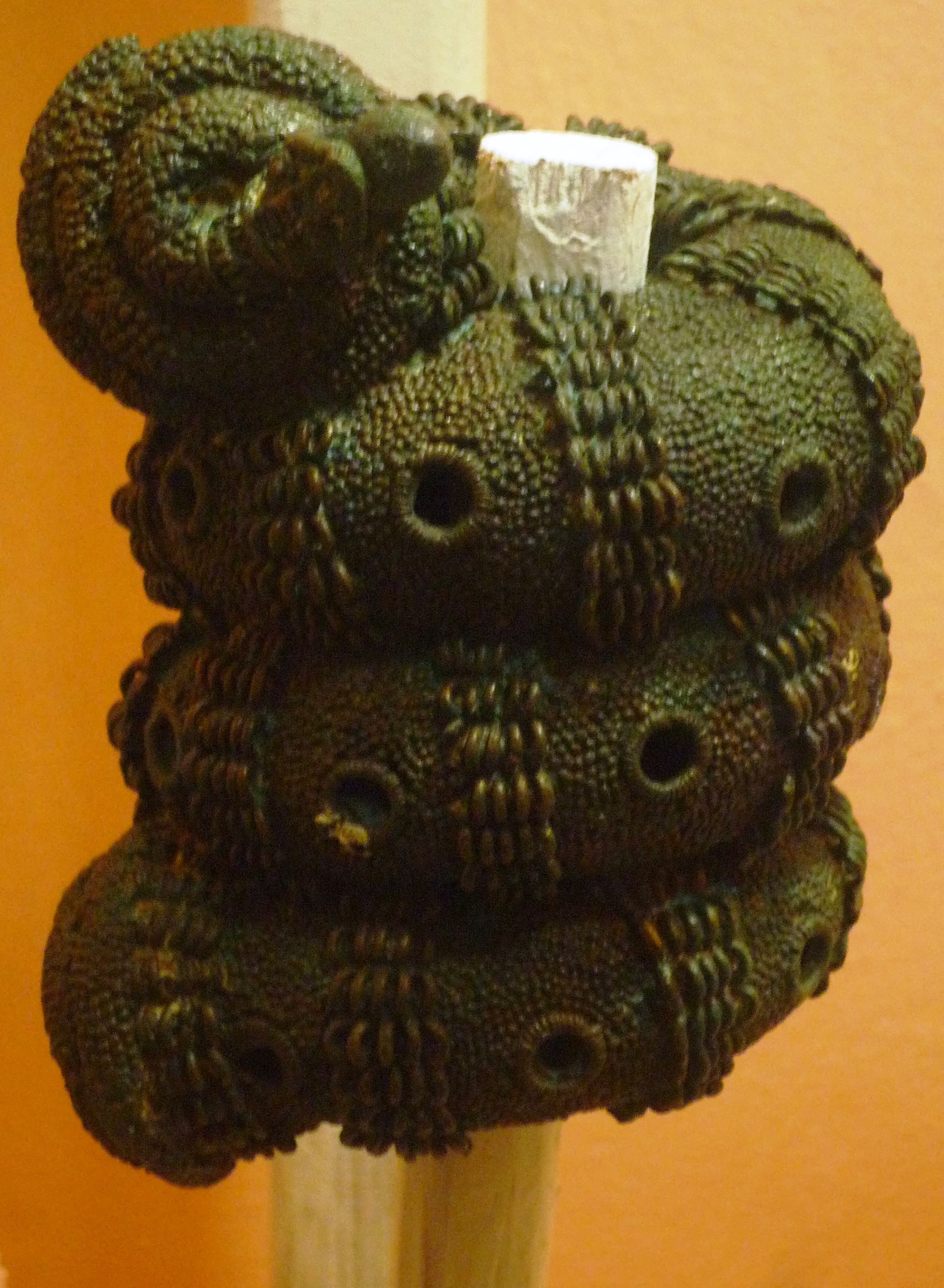 9th century bronze staff head in form of a coiled snake found in Igbo-Ukwu, Anambra State, Nigeria. Located in the National Museum Onikan, Lagos, Nigeria.